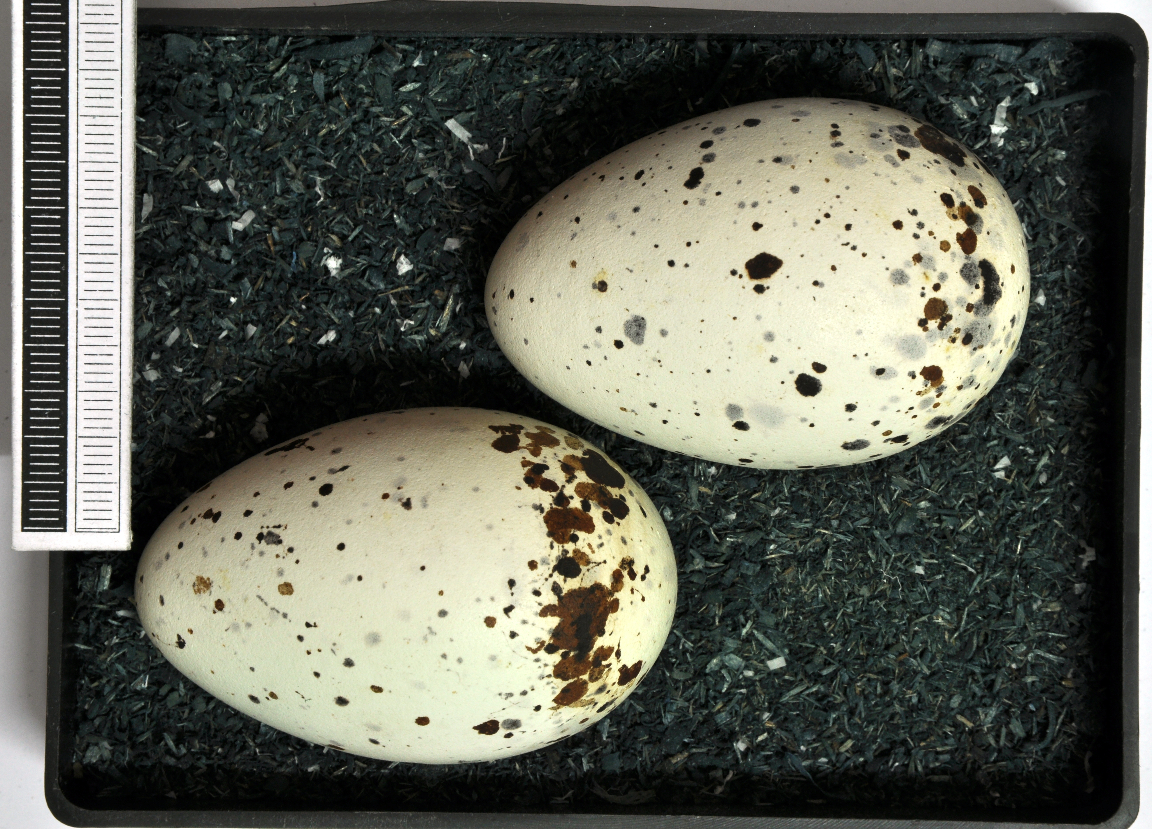 Black guillemot or tystie Cepphus grylle, egg, Coll. Museum Wiesbaden, Origin: Isfjorden, Spitsbergen, Norway, 25.06.1975, leg. W. Abelmann